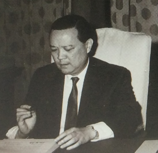 Minister of Foreign Affairs Shen Chang-huan.